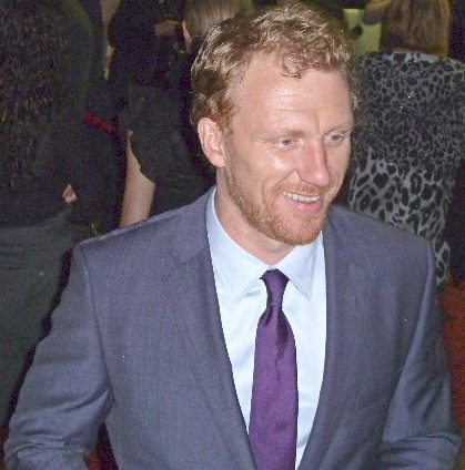 Kevin McKidd at the premiere of Bunraku, Toronto International Film Festival 2010